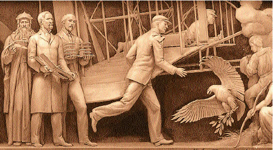 "The Birth of Aviation" - The first flight at Kitty Hawk (December 17, 1903) is depicted, with Orville Wright in the Flyer, which has just left the ground, and Wilbur running alongside to steady the wing. In the background stand Leonardo da Vinci, Samuel Pierpont Langley, and Octave Chanute; each holds a model of his earlier design for a flying machine. An eagle with an olive branch in its talons emphasizes this flight as a great American achievement and closes this last scene.